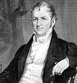 Eli Whitney; (incorrectly previously described as Nicolas-Joseph Cugnot)